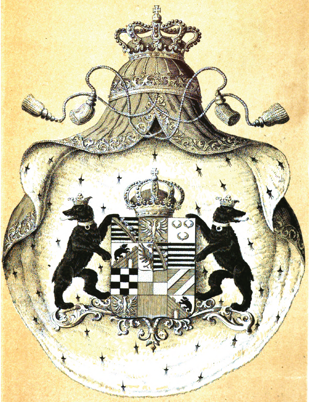 coat of arms of Anhalt-Dessau-Cöthen